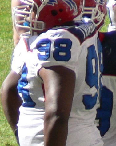 Chris Kelsay, Larry Tripplett, and Coy Wire of the Buffalo Bills defensive line.